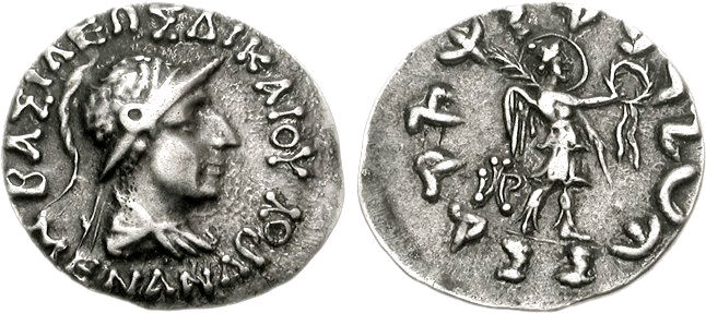 Menander II with nimbate Nike